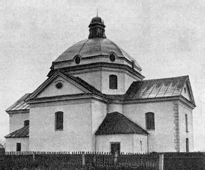 Voznesenska Church in Ulaniv (1777)